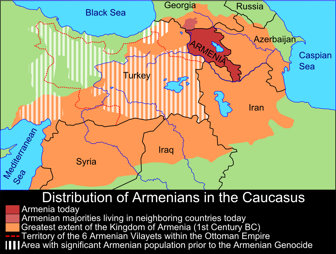 Modern population distribution of Armenians in the 19th and 20th centuries juxtaposed with the maximal extent of the Armenian Empire in the 1st century BC. The reason the modern population maps were combined with the borders of an ancient empire is probably the role which "Greater Armenia" continues to play in Armenian nationalism Sources Kingdom of Armenia at its greatest extent under the Artaxiad Dynasty after the conquests of Tigranes the Great, 80 BC Ethnic map of the Caucasus Six Armenian Vilayets Armenian population map 1896 Politika.rs